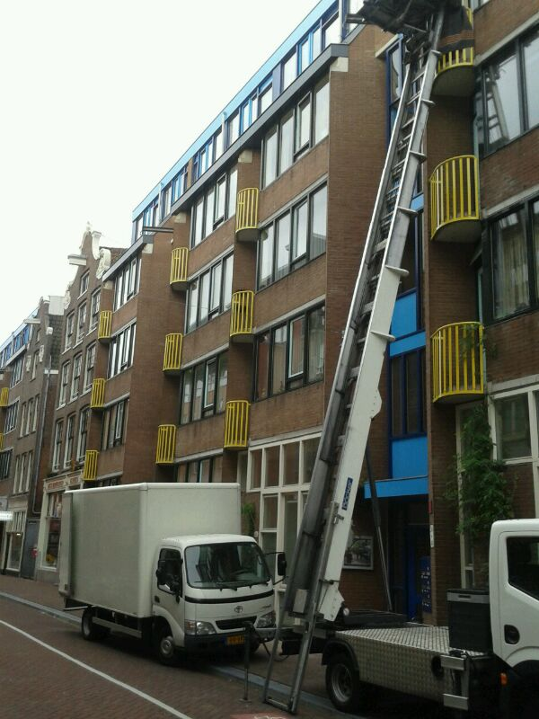 i about Moving Company in Amsterdam citymovers.nl